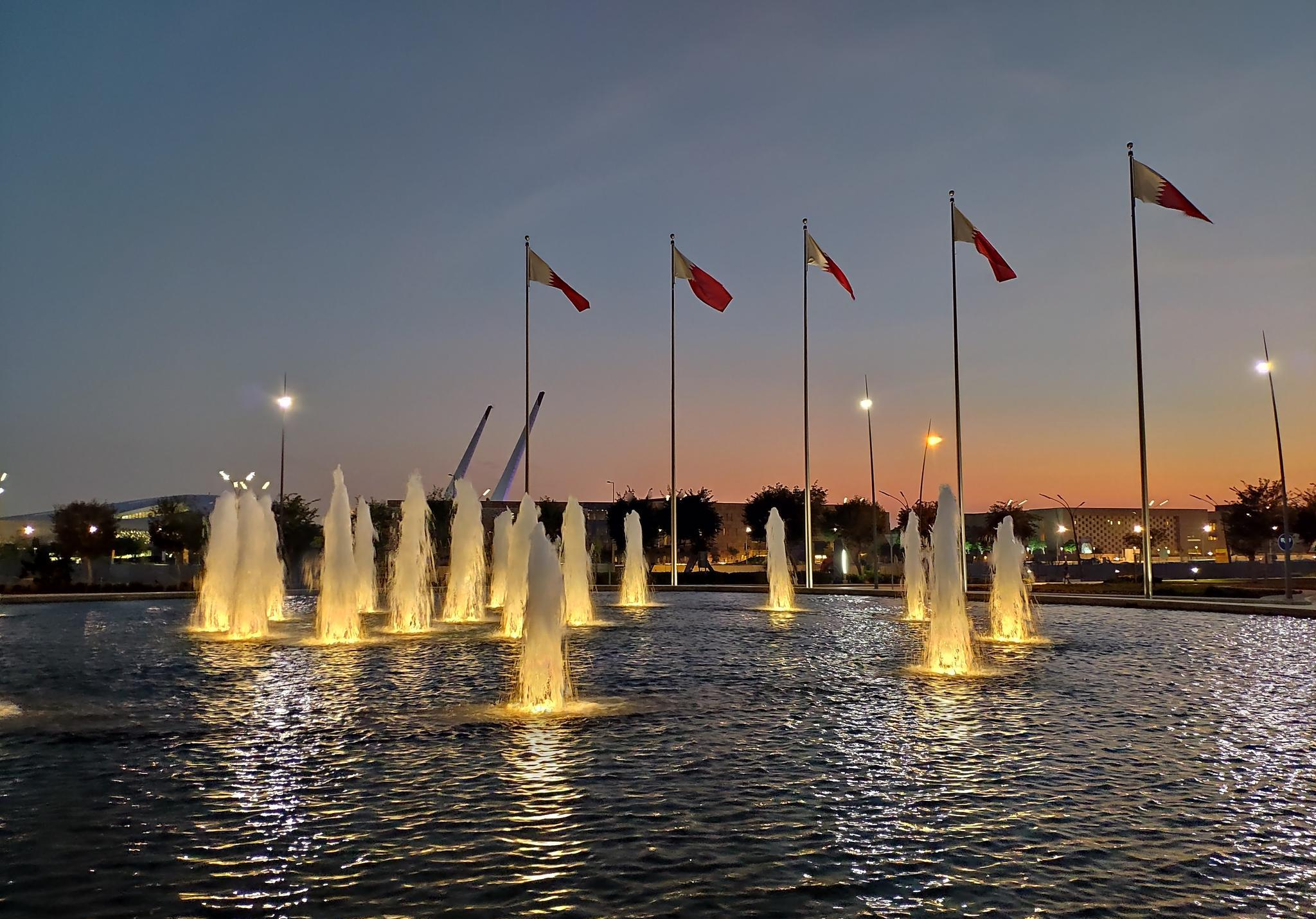 View of the fountain near Sidra Medical and Research Center in the Al Gharrafa district of Al Rayyan, Qatar.